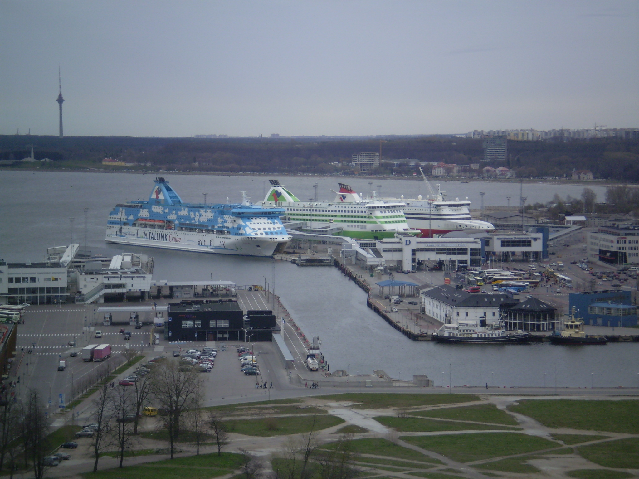 Three Tallink ships in the port of Tallinn. Picture is taken from St Olav's church tower.